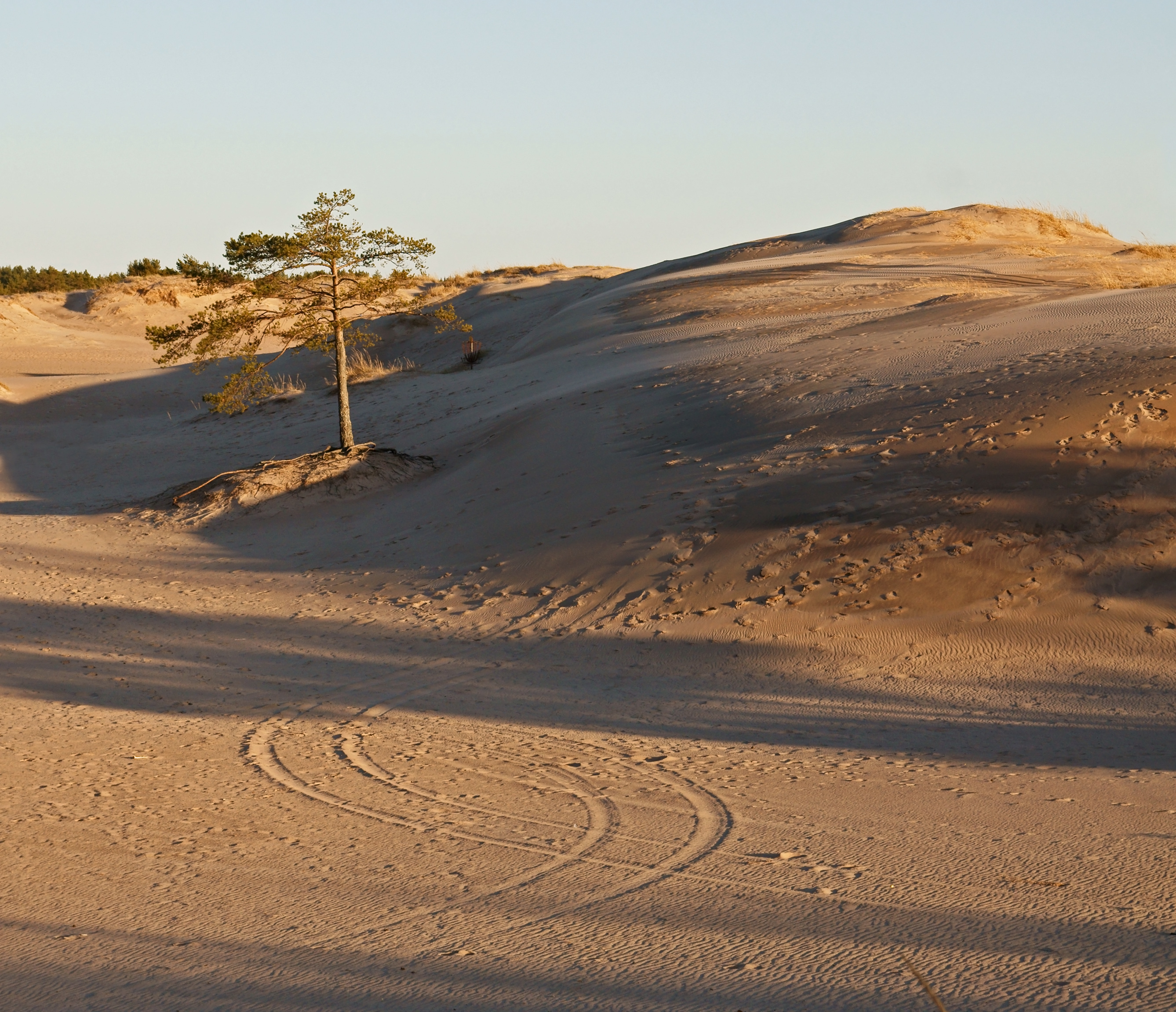 Dune in Yyteri, Pori, Finland.